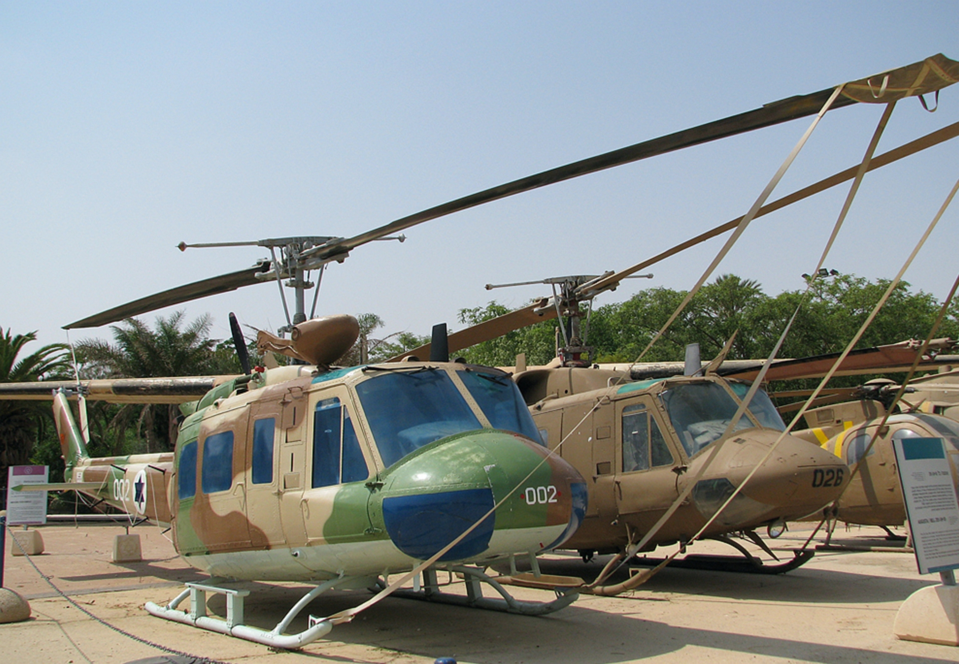 4X-FLO (002) at the Israel Air Force Museum , Hatzerim